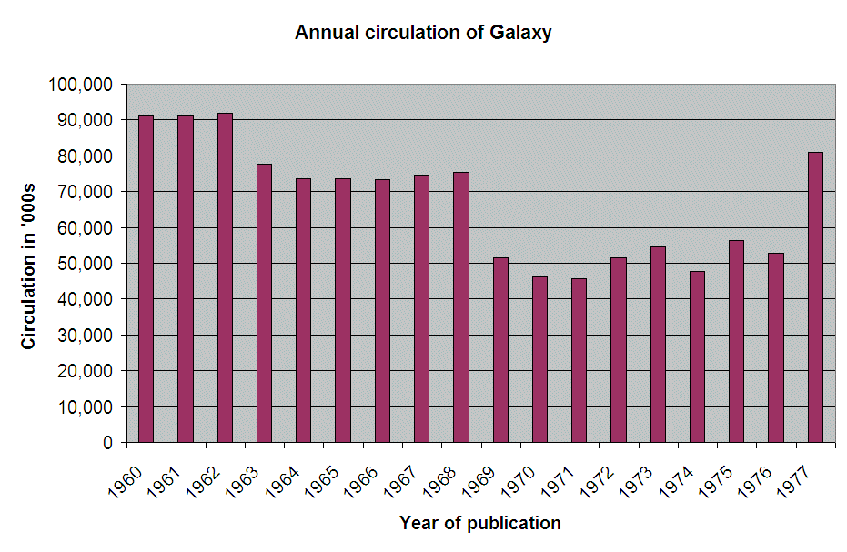 Paid circulation figures for Galaxy from 1960 to 1977. Source data comes from the circulation statements each year, as follows: YearCirculation of GalaxyMonth in which recordedPage 196091000Feb-6163 196191000Apr-6291 196292000Apr-63158 196377677Apr-64151 196473536Feb-65152 196573610Apr-66125 196673400Apr-6781 196774700Feb-6878 196875300Jan-69115 196951479Dec-6989 197046091Jan-71129 197145598Jan-72175 197251602Jan-7375 197354524Dec-73176 197447789Feb-75158 197556361Feb-76154 197652831Apr-77112 197781035Dec/Jan 77-78160 Note that the data does not come from a calendar year. The statements were each sworn on October 1 of the preceding year. The circulation figures could take two or three months to come in, since it was necessary to wait for returns from news stands to know what the paid circulation was. Hence the information for the year marked 1972, above, may actually be for a twelve-month period from about July 1971 to June 1972.